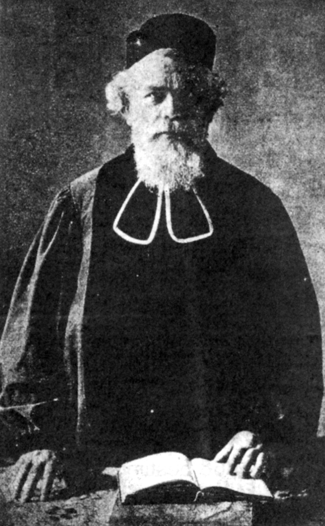 Rabbi Salomon Carlebach